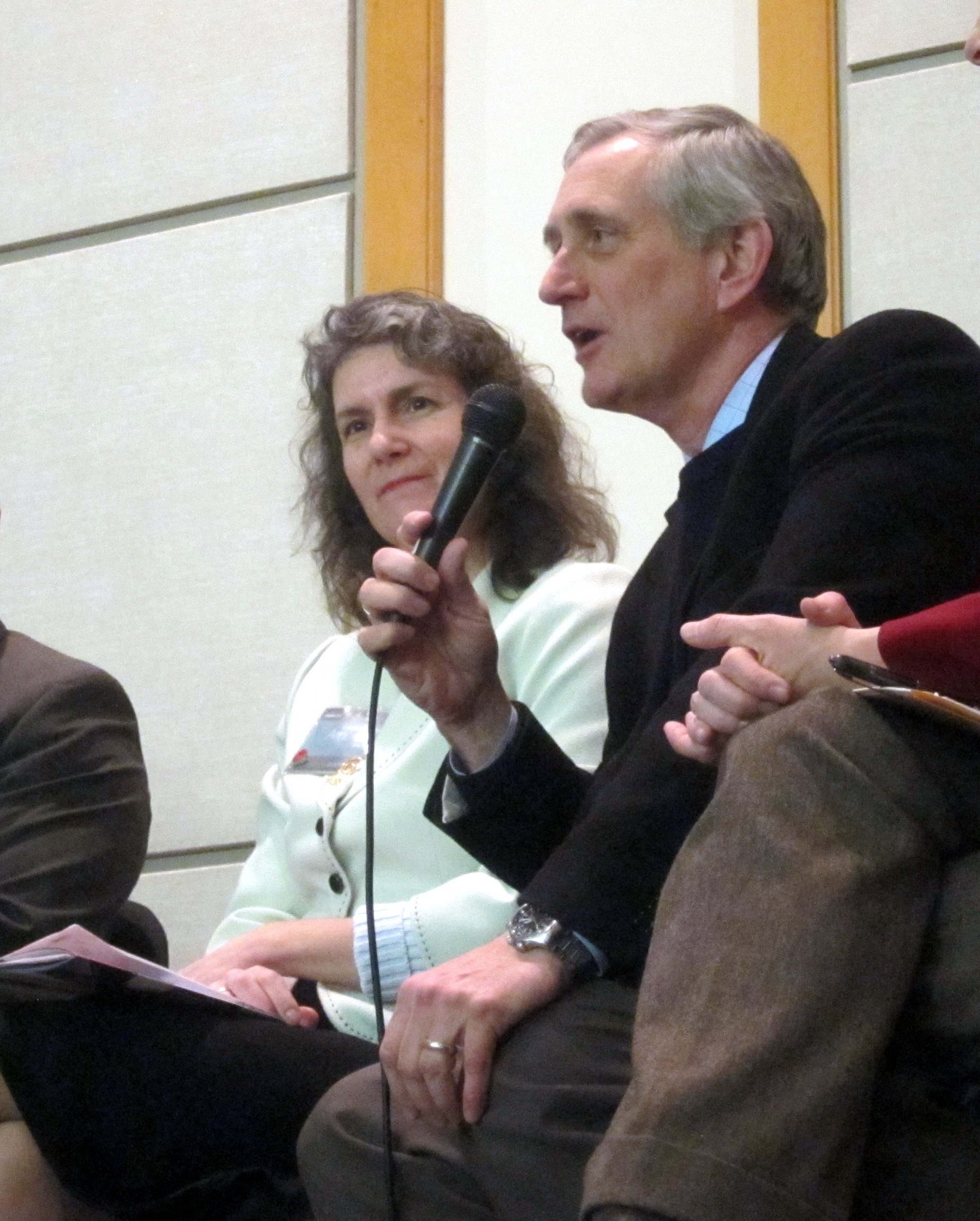 campaigning for mayor at a League of Conservation Voters panel, February 2012. Behind him is city commissioner Amanda Fritz.